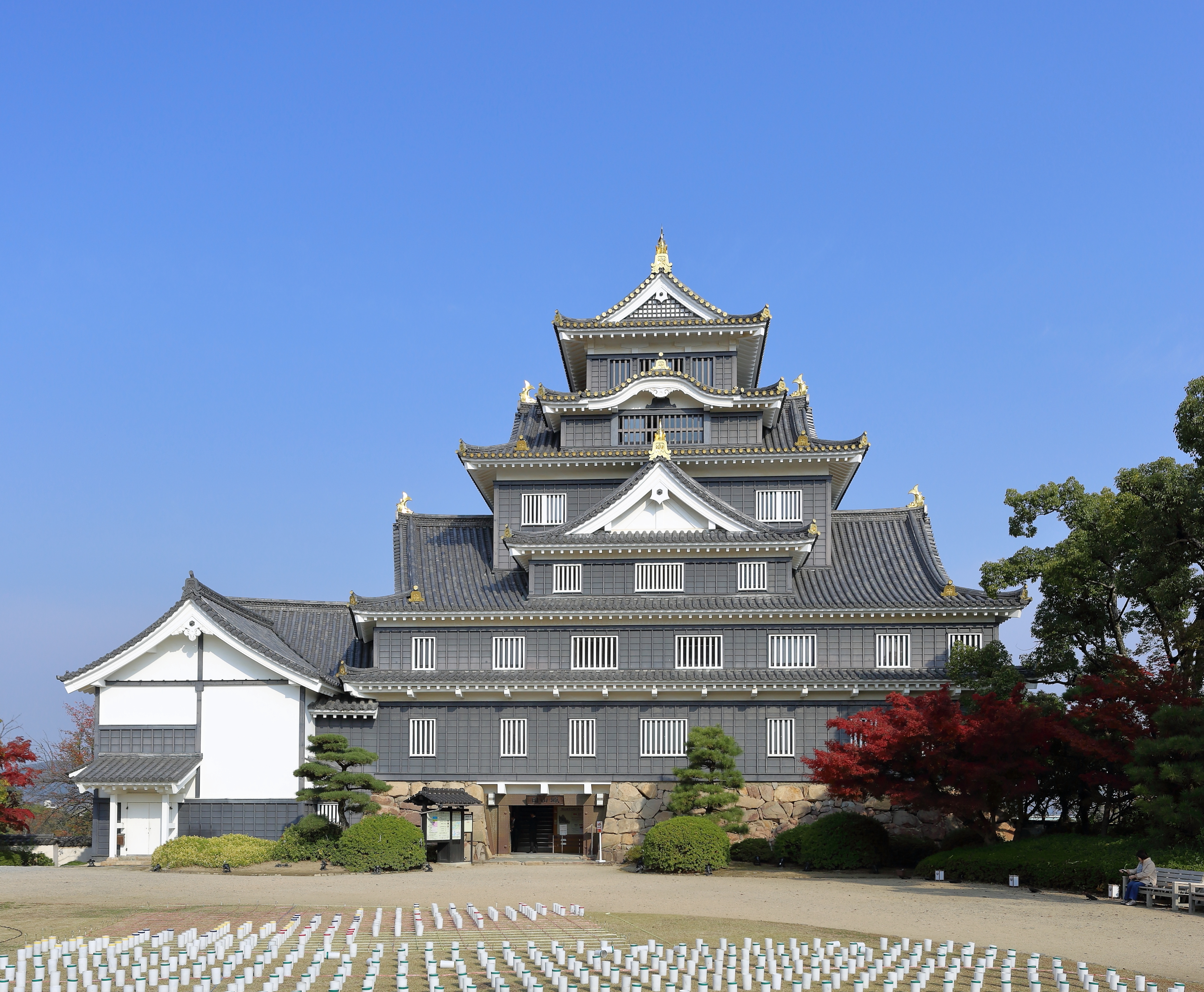 Okayama Castle is a Japanese castle in the city of Okayama.